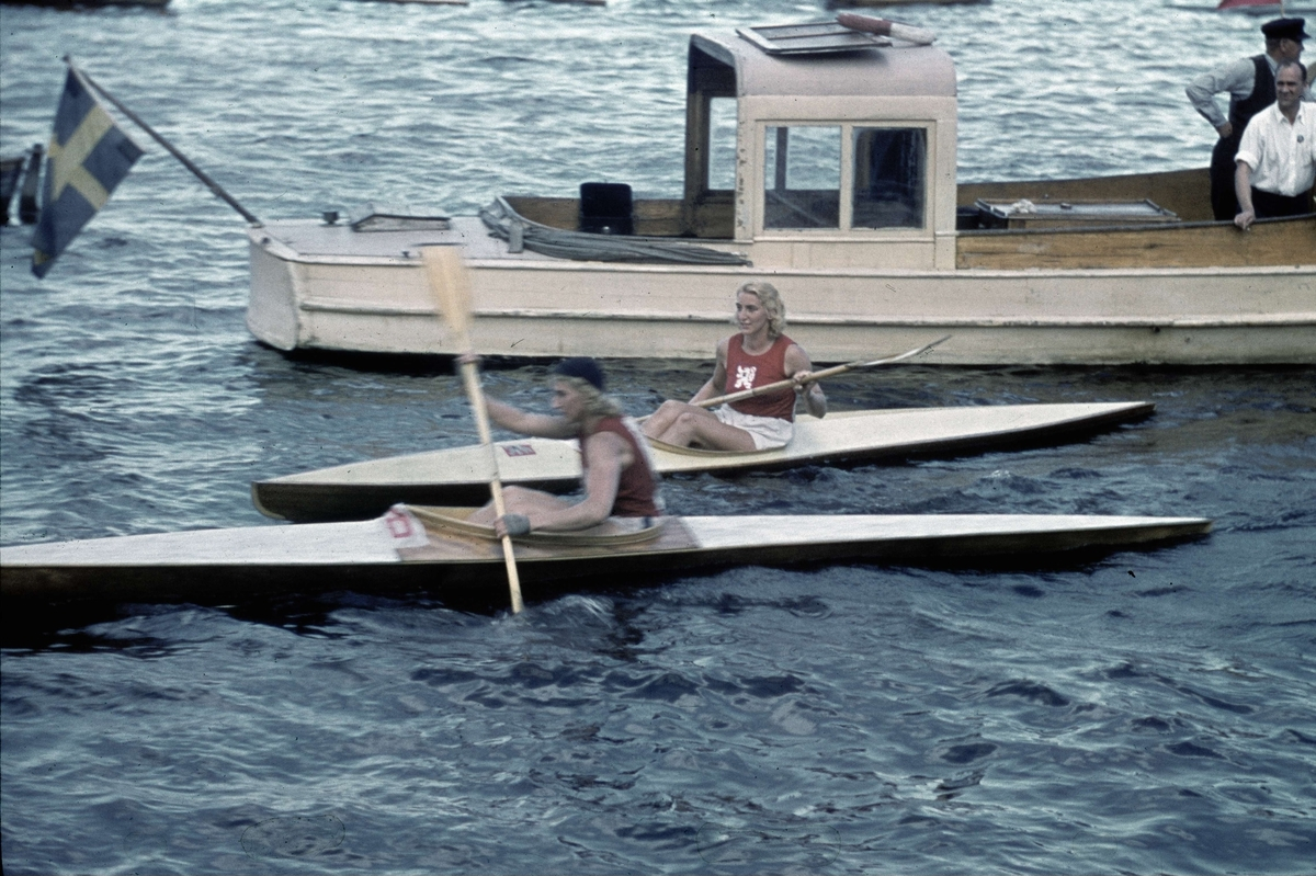 The world cup competitions in canoe. Blonde girl from Czechoslovakia. Sweden Vaxholm 1938. This Agfacolor photo was not colorized. Life before the Second World War in Europe.